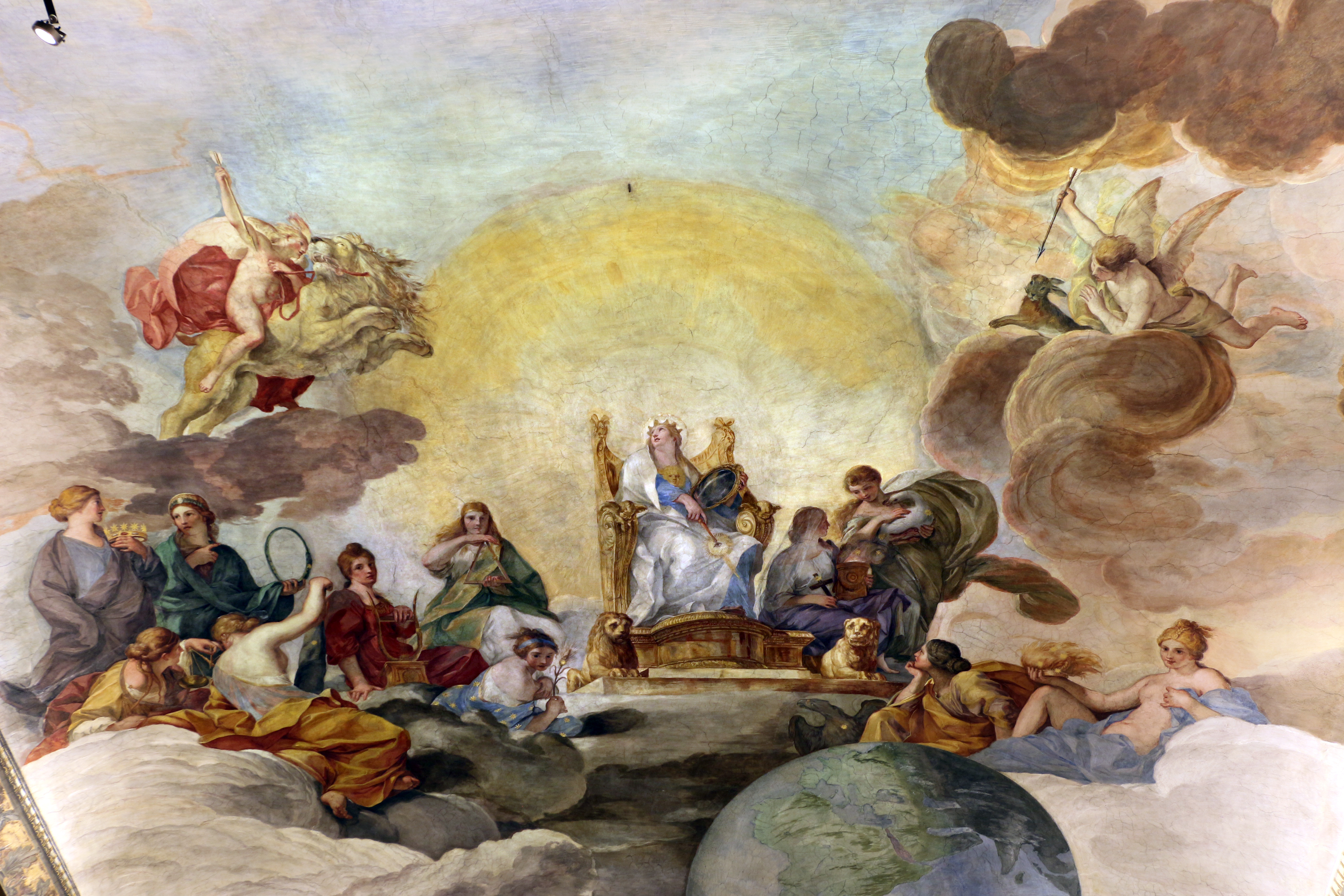 Allegory of Divine Wisdom by Andrea Sacchi